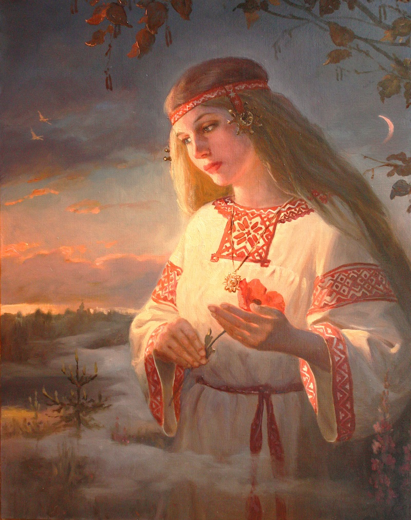 Zarya Zarenicza by Andrey Shishkin